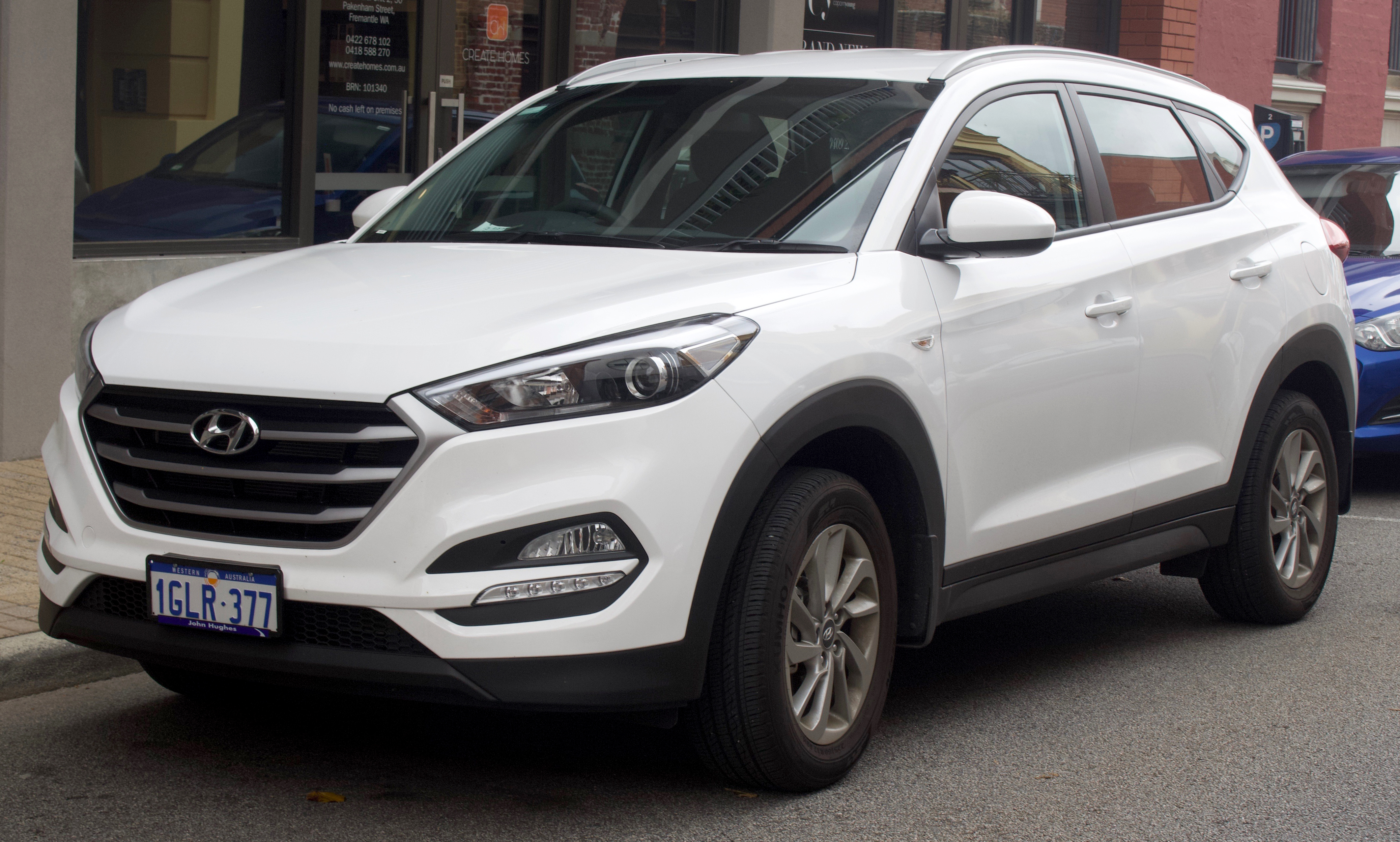 2018 Hyundai Tucson (TL2 MY18) Active 2WD wagon. Photographed in Fremantle, Western Australia, Australia.